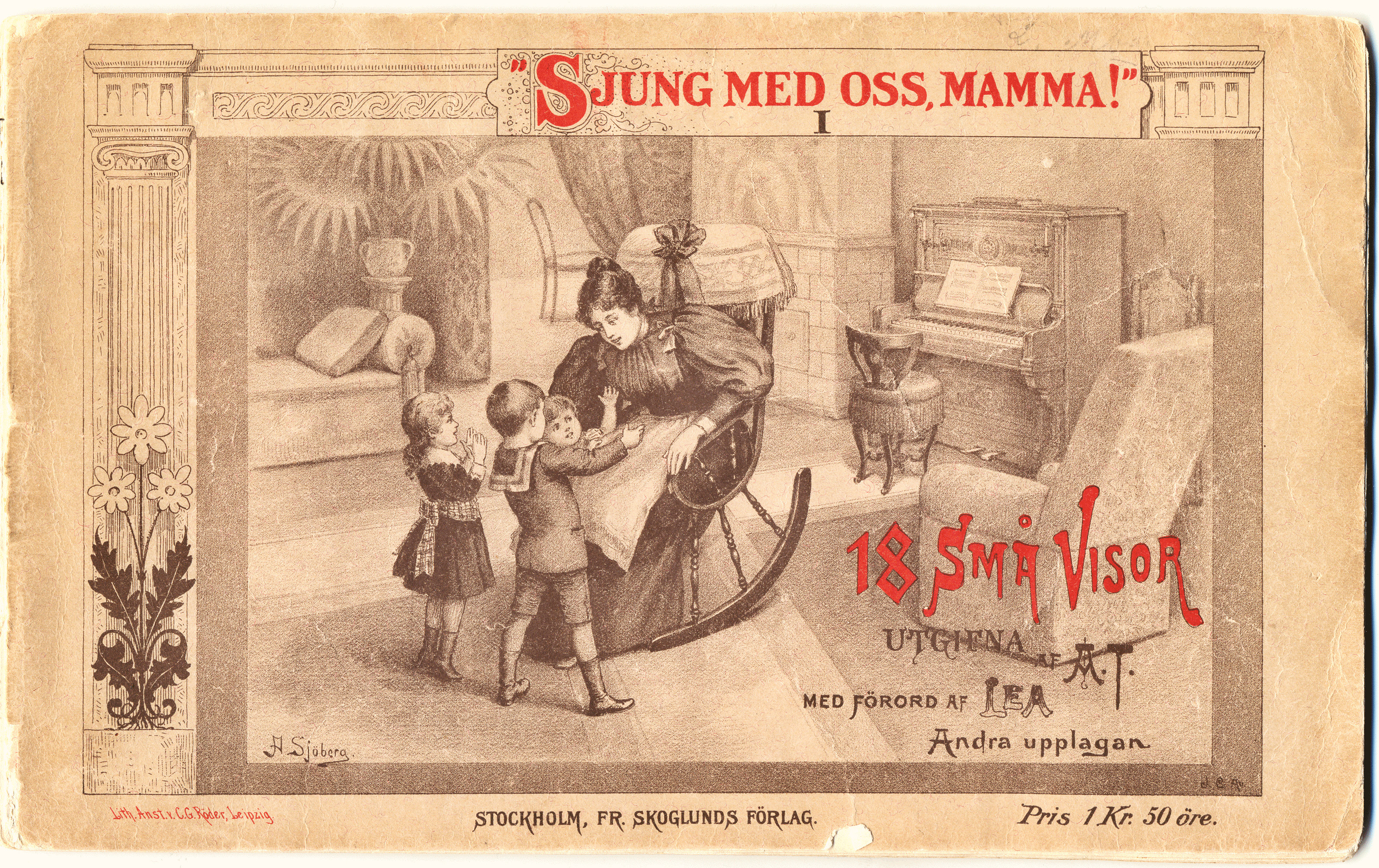 Songbook cover of Alice Tegnér: "Sjung med oss, Mamma!", part 1